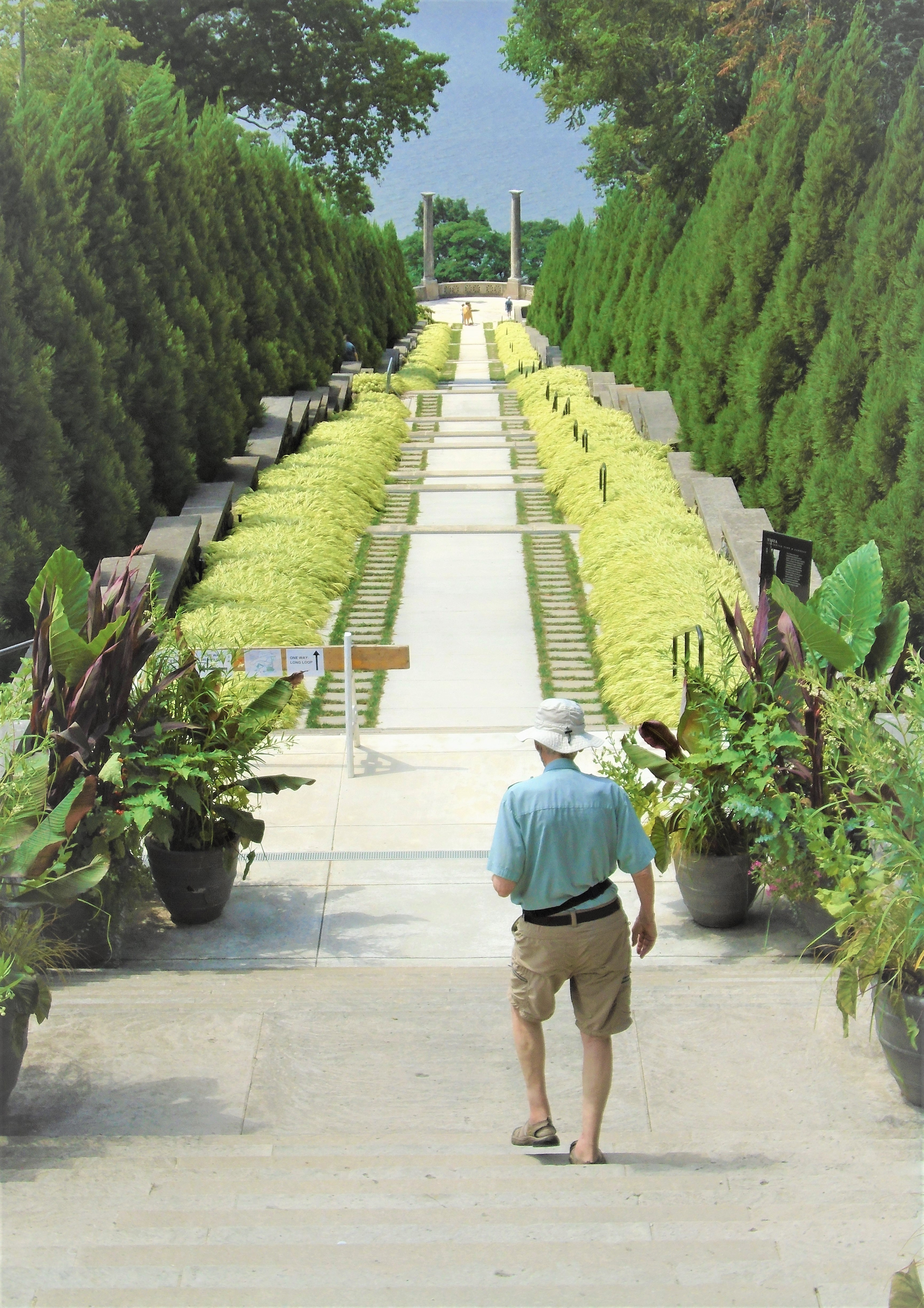 Untermyer Park and Gardens is a historic 43-acre (17 ha) city public park, located in Yonkers, New York in Westchester County, just north of New York City. The park is a remnant of Samuel J. Untermyer's 150-acre (61 ha) estate "Greystone". The park features a Walled Garden inspired by ancient IndoPersian Paradise gardens, a small Grecian-style open-air amphitheater with two facing sphynxes supported by tall Ionic columns, a rock-and-water feature called the "The Temple of Love", as well as a long staircase which leads to an Overlook with views of the Hudson River and the Palisades. The gardens were developed beginning in 1916 and were designed by architect and landscape designer William W. Bosworth. At their peak, they were considered to be among the finest in the United States. The park and gardens were added to the National Register of Historic Places in 1974. The Vista is a long descending staircase which runs from lower loggia of the Walled Garden down towards the Hudson River, where it culminates in the Overlook. The staircase is modeled on the Renaissance era Villa d'Este in Italy at Lake Como. This view looks down the stairs.